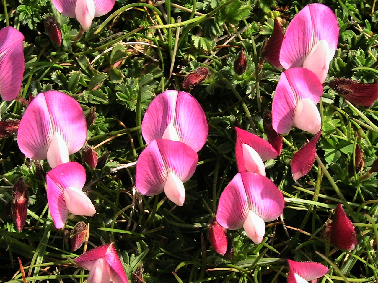 Ononis cristata. In la Bòfia, Odèn (Solsonès - Catalunya). To 2.300 m. altitude